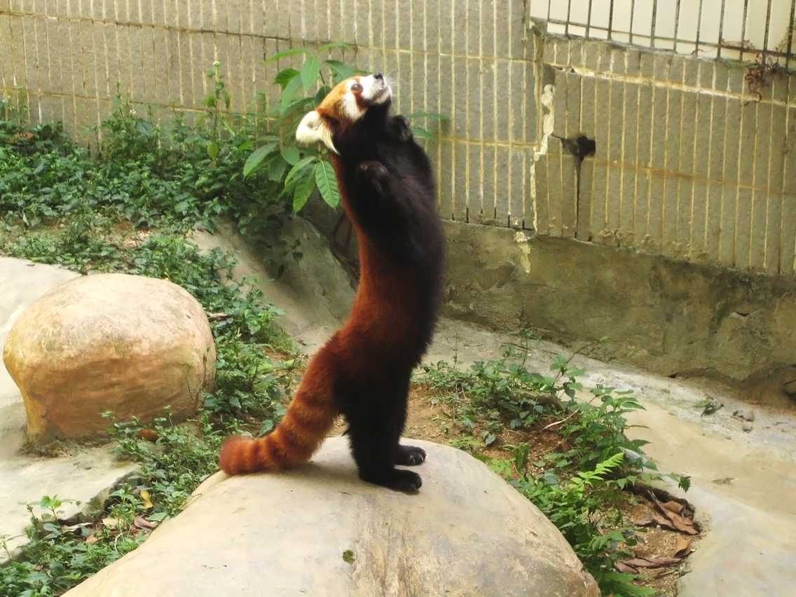 Ailurus fulgens, Alex.